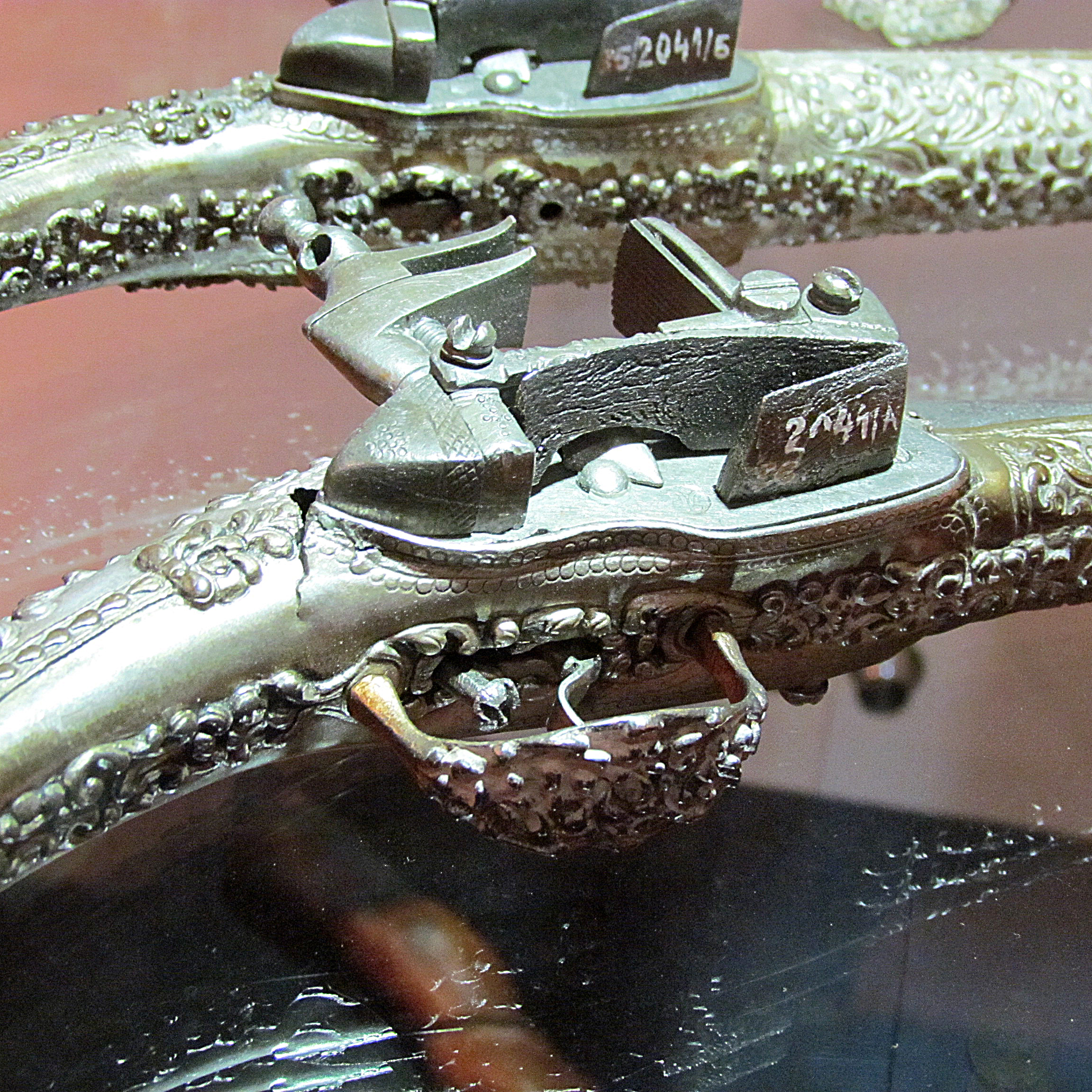 Karadjordje's ledenica flintlocks